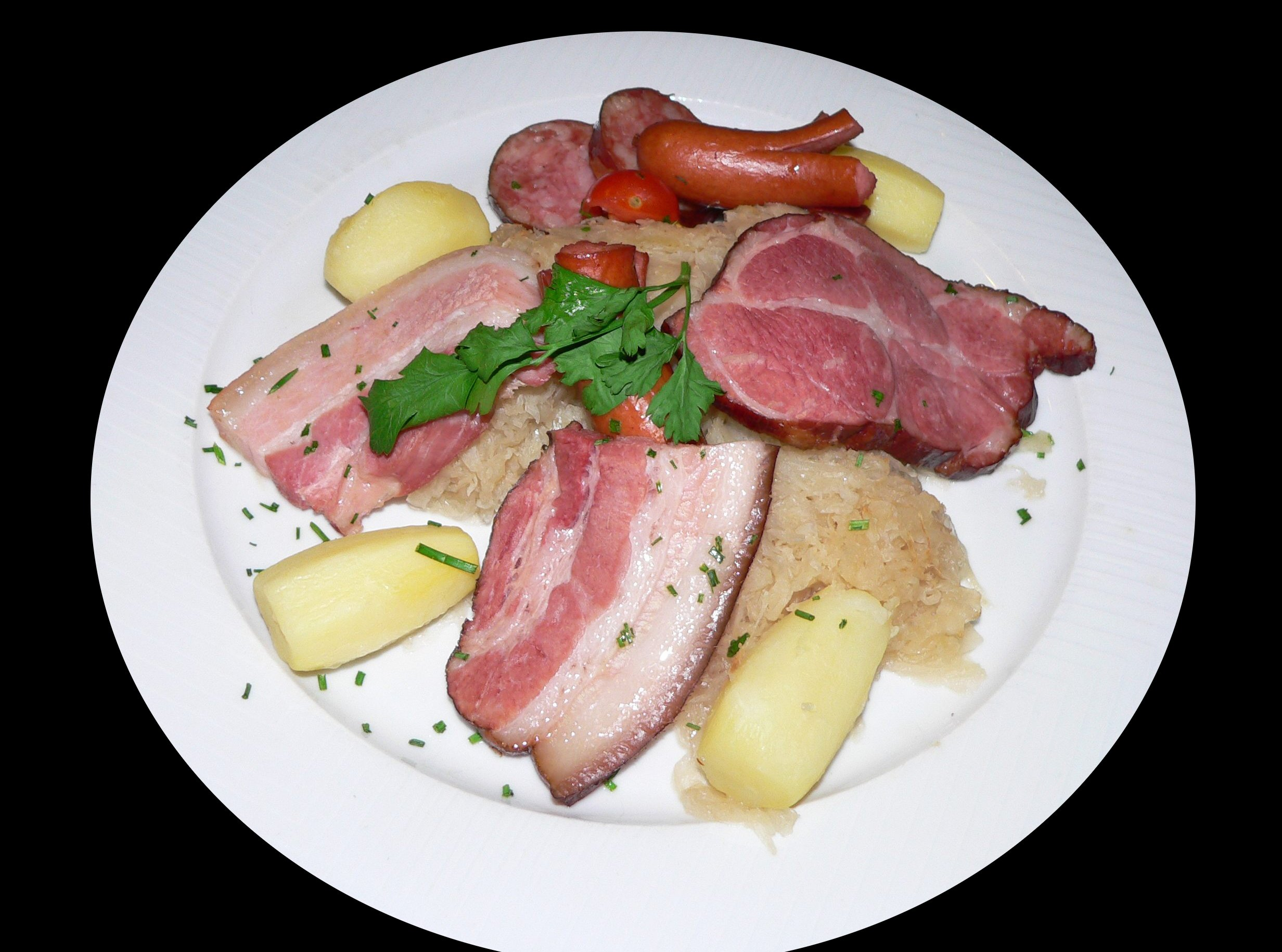 Choucroute garnie, a variety of Sauerkraut